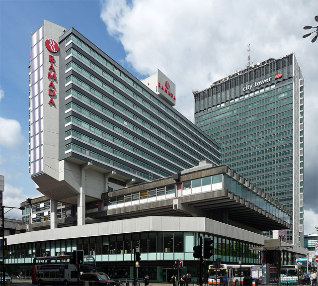 Hotel Piccadilly, Piccadilly Gardens, Manchester